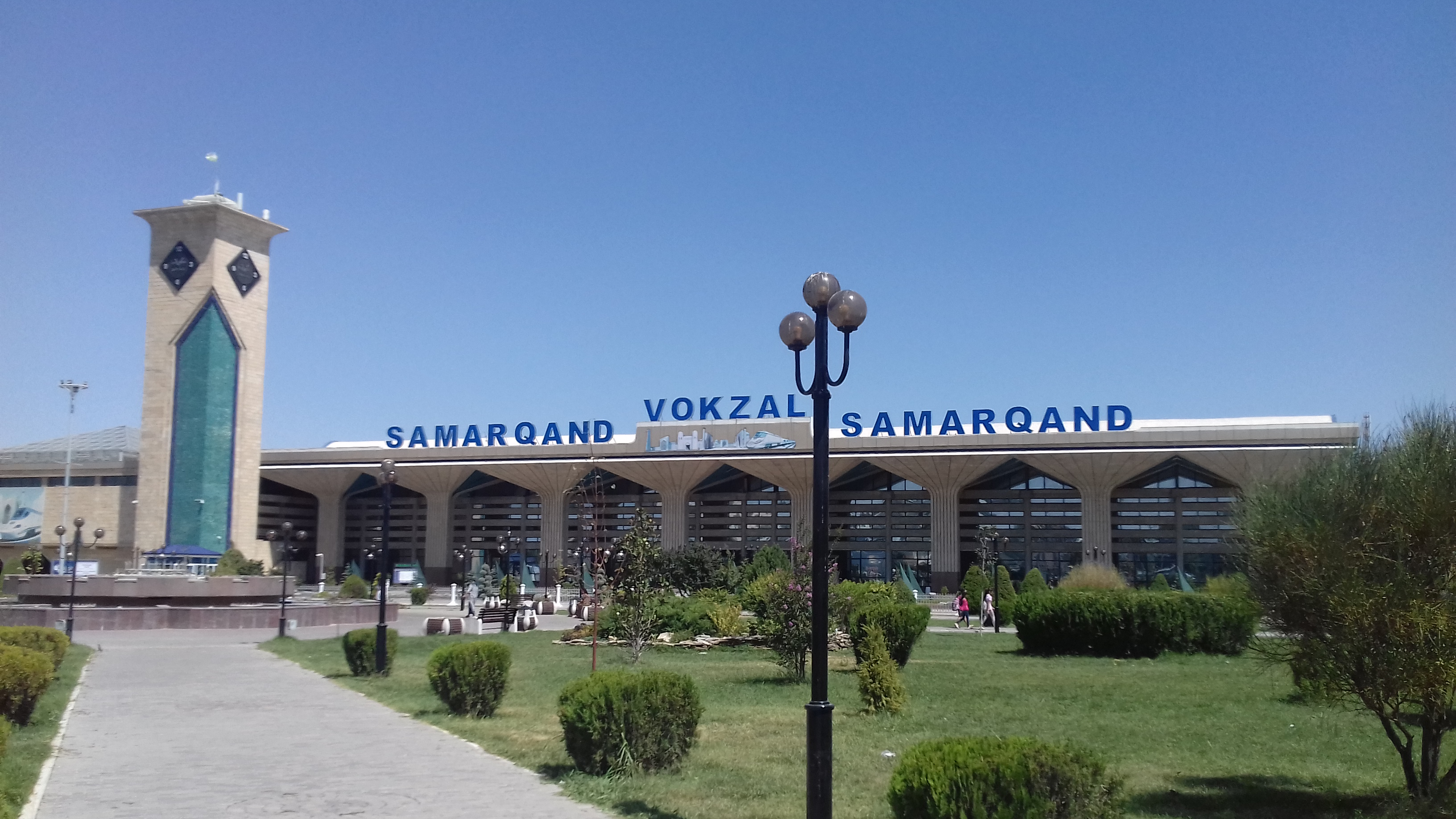 Samarkand Railway Station (Uzbekistan)